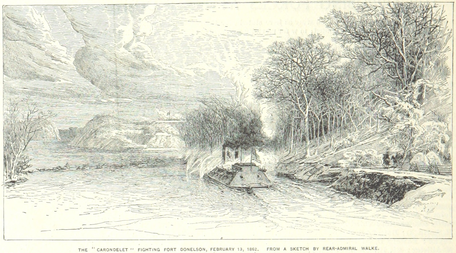 The ironclad USS Carondelet attacks as a diversion during the Battle of Fort Donelson.